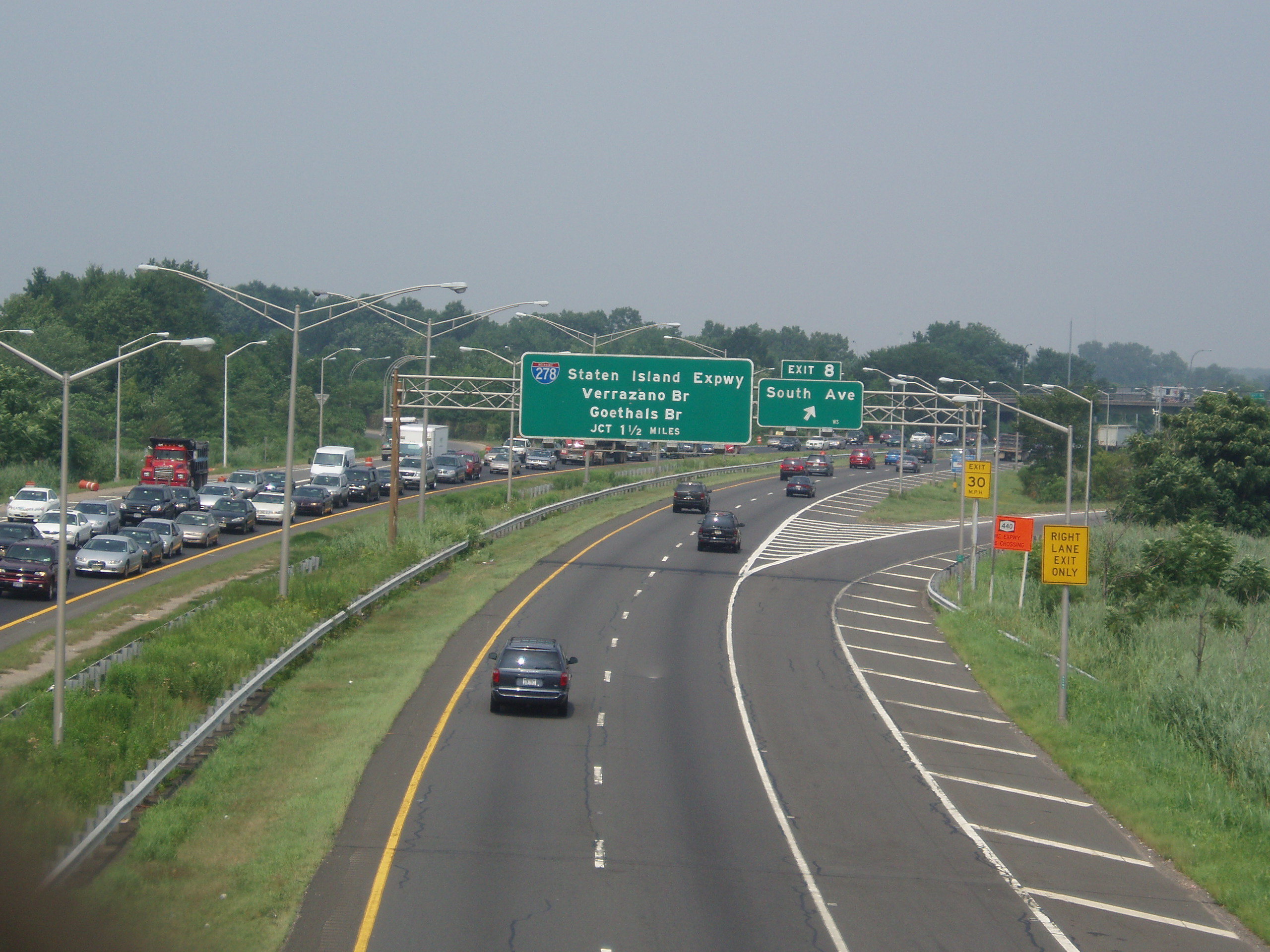 Looking north over the West Shore Expressway, from Meredith Avenue. I took the photograph.